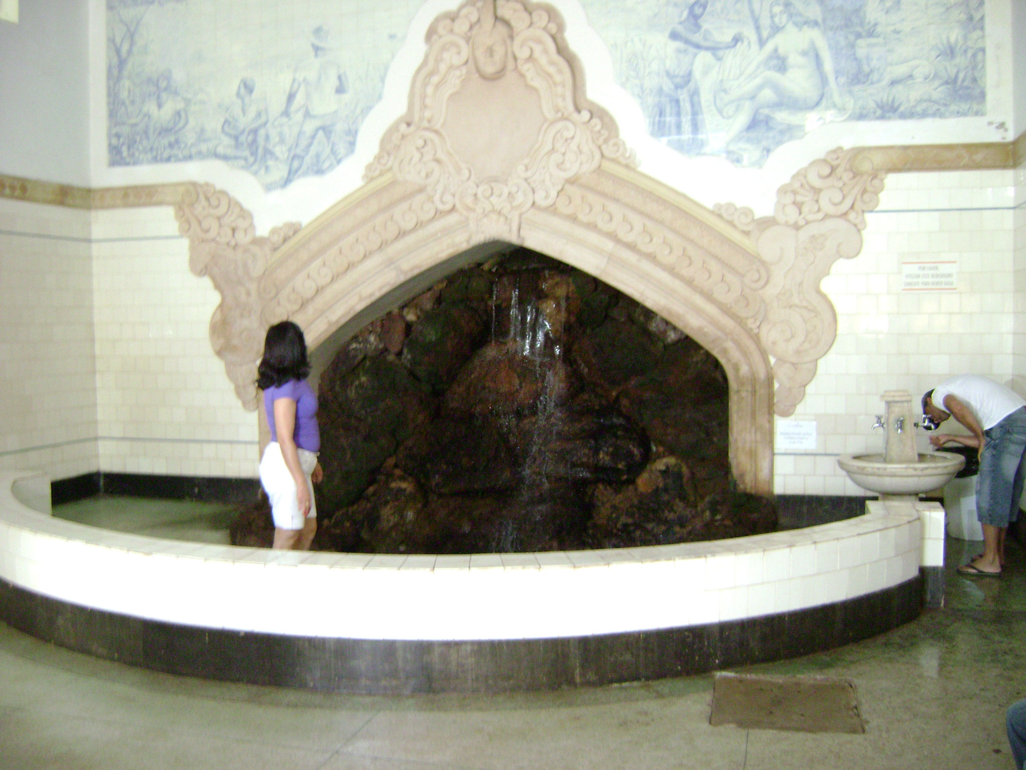 Interior da fonte termal de Dona Beija, em Araxá, Minas Gerais, Brasil.